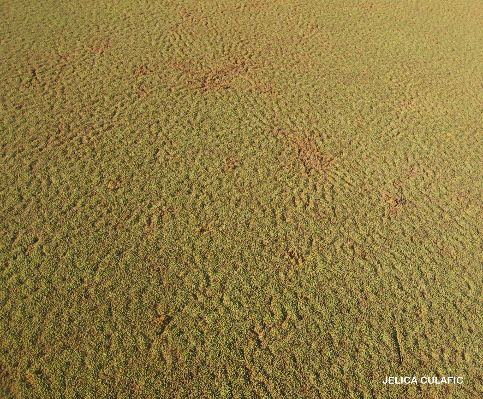 This is a small river Jezava in Smederevo, a town near Belgrade, Serbia. I was standing on a bridge. The water is covered in algae due to excessive summer heat and draught and subsequently slow moving of the water. The deposed plastic bottles are also visible.